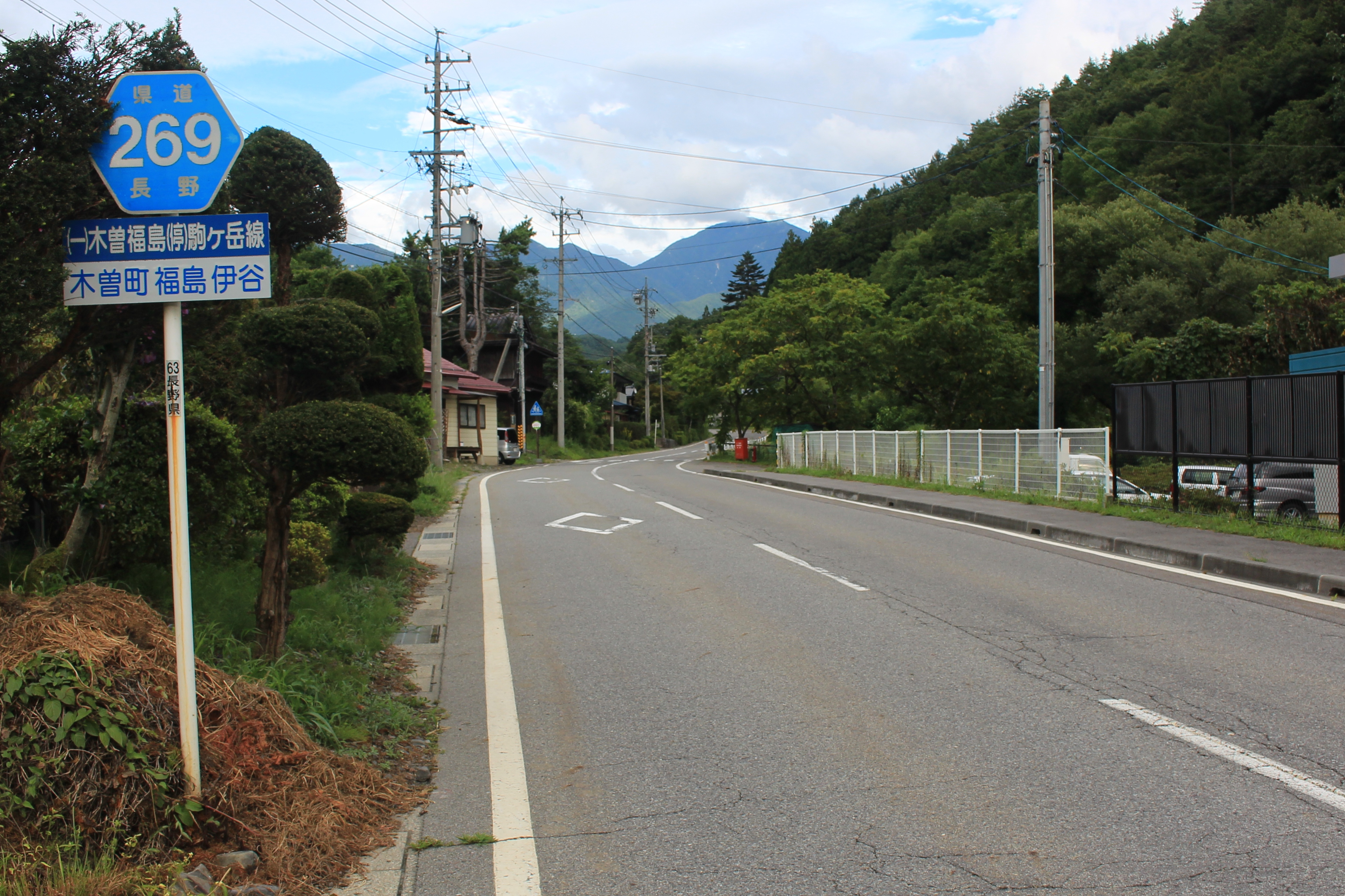 Nagano Prefectural Road Route 269. in Iya, Fukusima, Kiso town, Nagano prefecture, Japan.